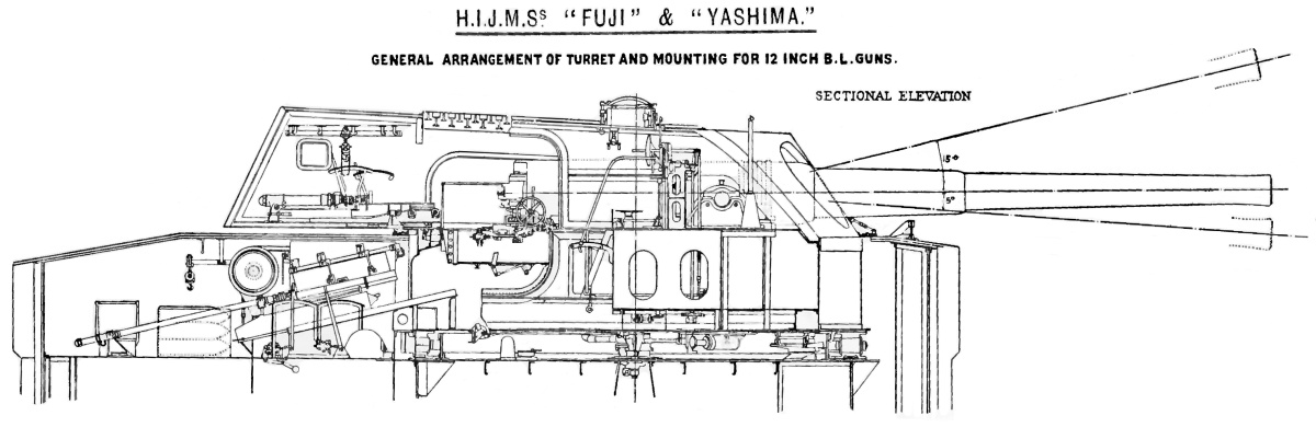 Right elevation diagram of 12-inch 40-calibre gun turret of Japanese Fuji class battleship.